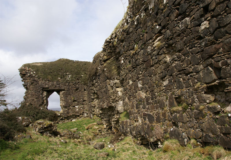 Aros Castle (Mull, Scotland) - interior